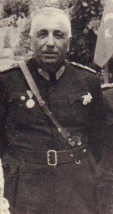 Fahrettin Altay